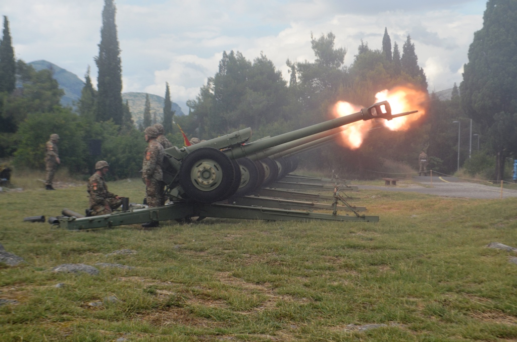 Military Montenegro